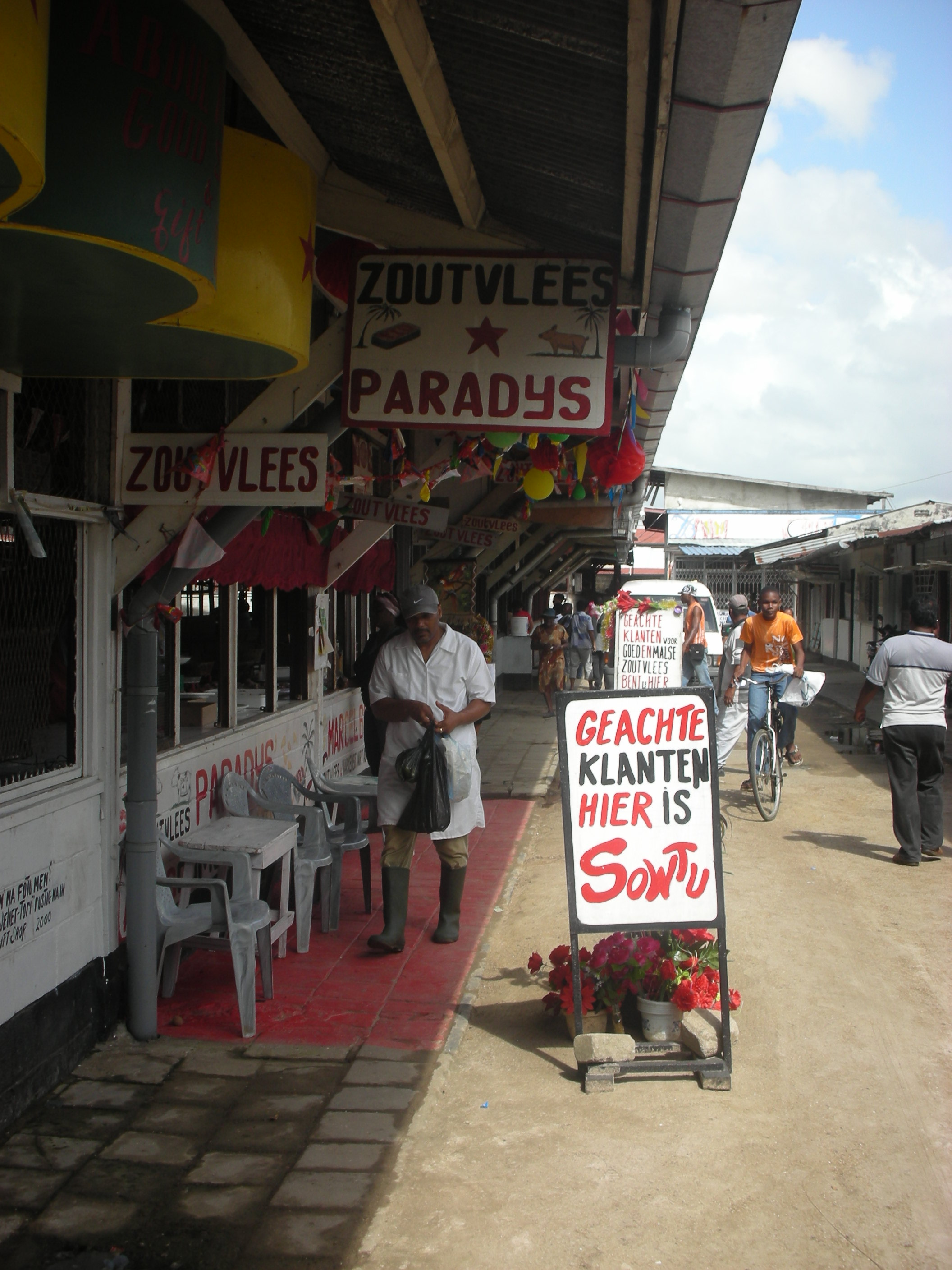 A Butcher in Paramaribo's market, in Suriname.